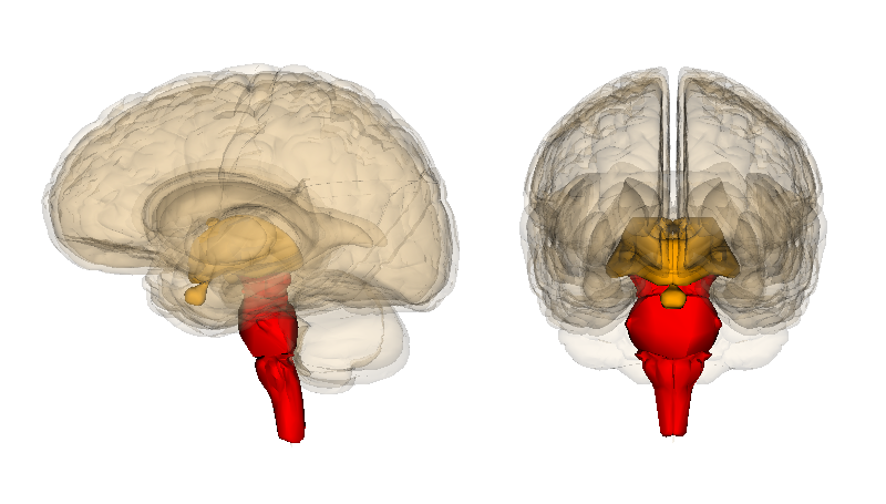 brainstem. Images are from Anatomography maintained by Life Science Databases(LSDB).